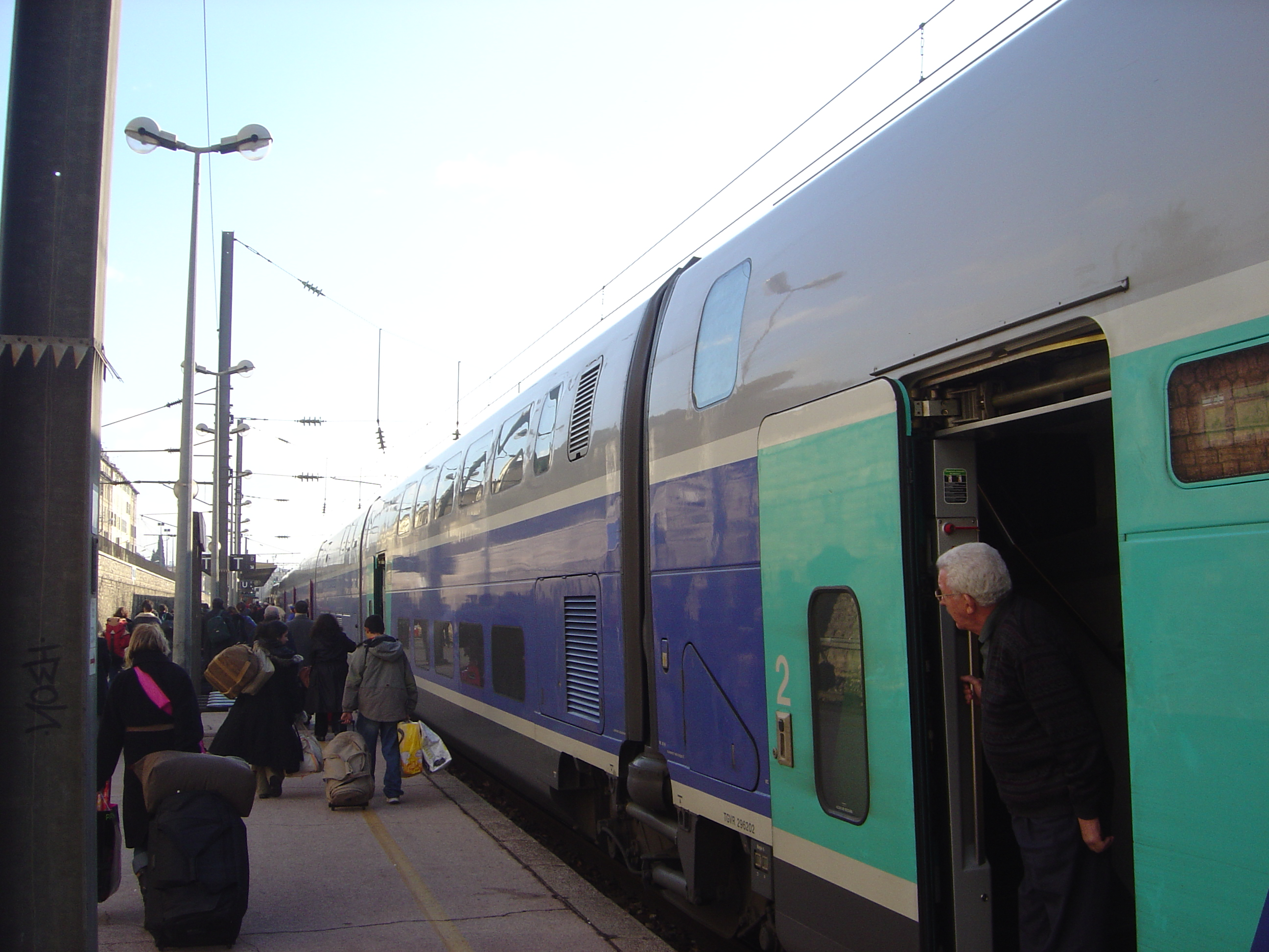 double-decker TGV